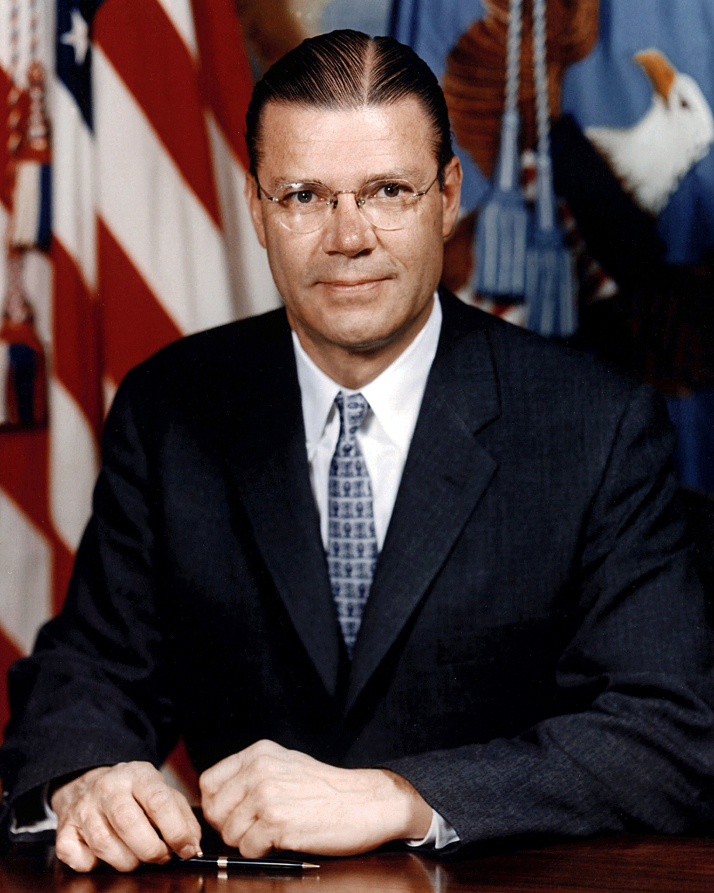 Official portrait of former United States Secretary of Defense Robert McNamara.